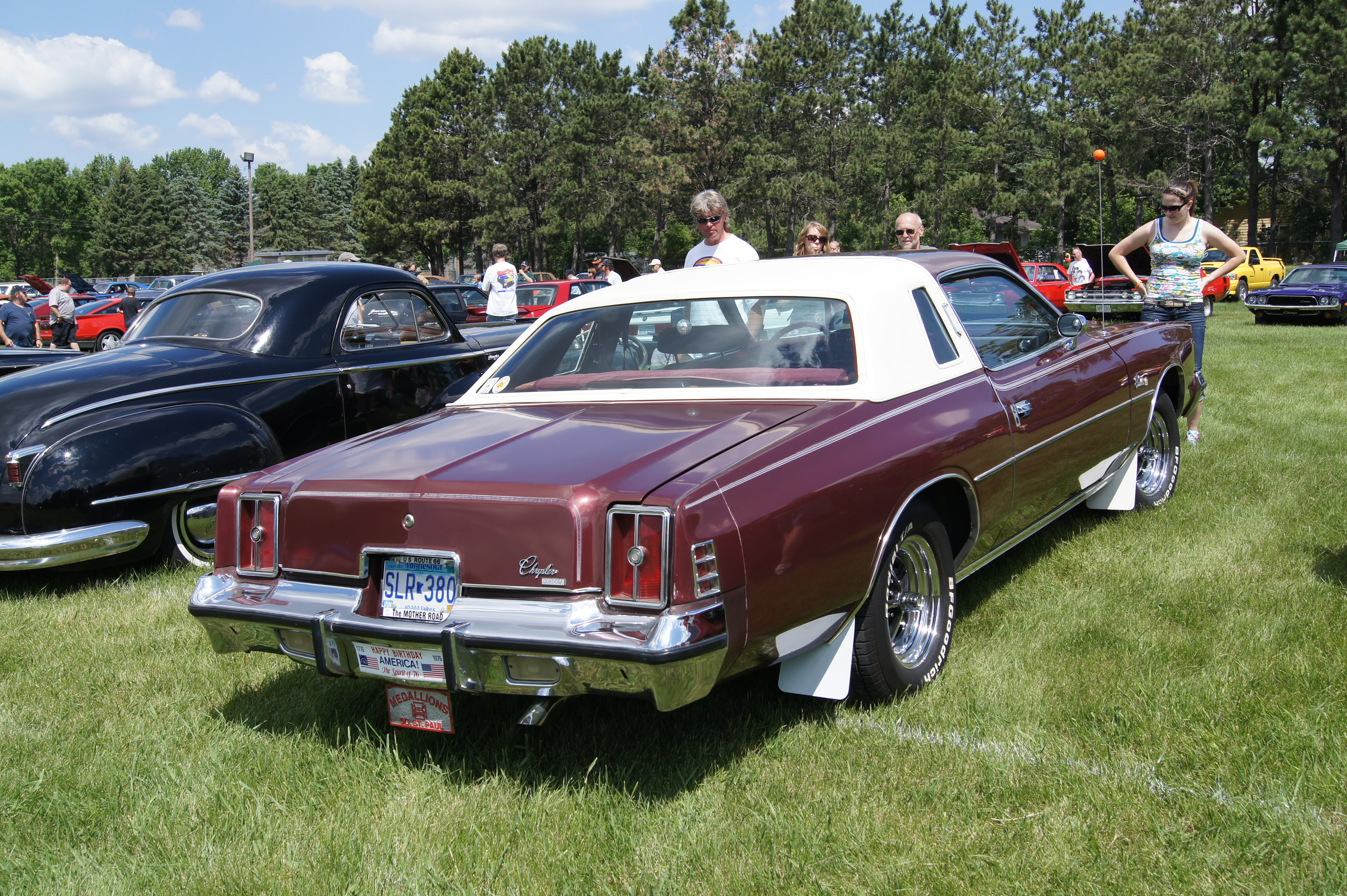 28th Annual Midwest Mopars in the Park June 2, 2012